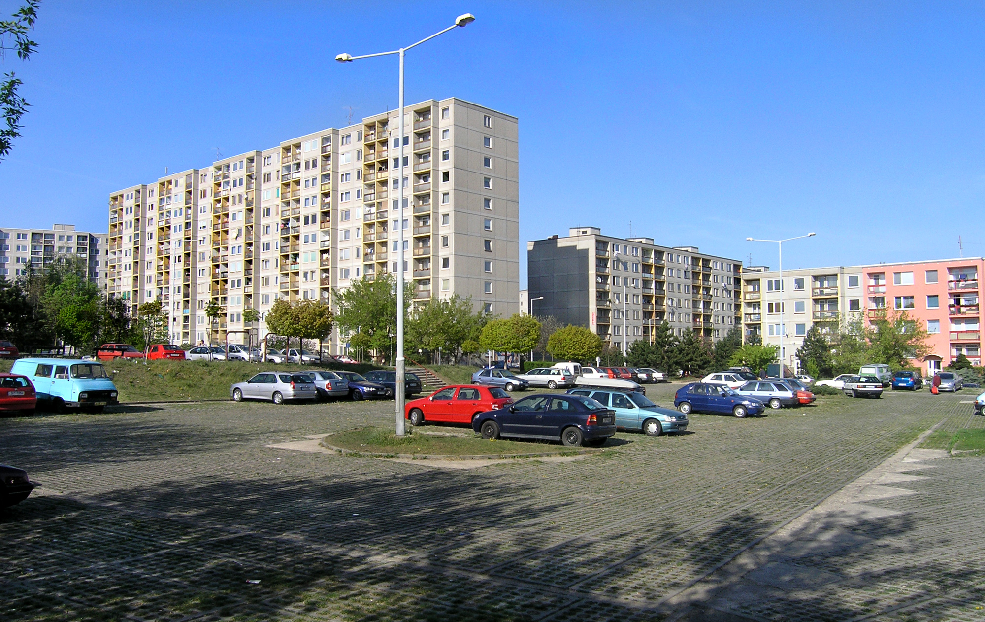 Na Beránku housing estate at Modřany, Prague